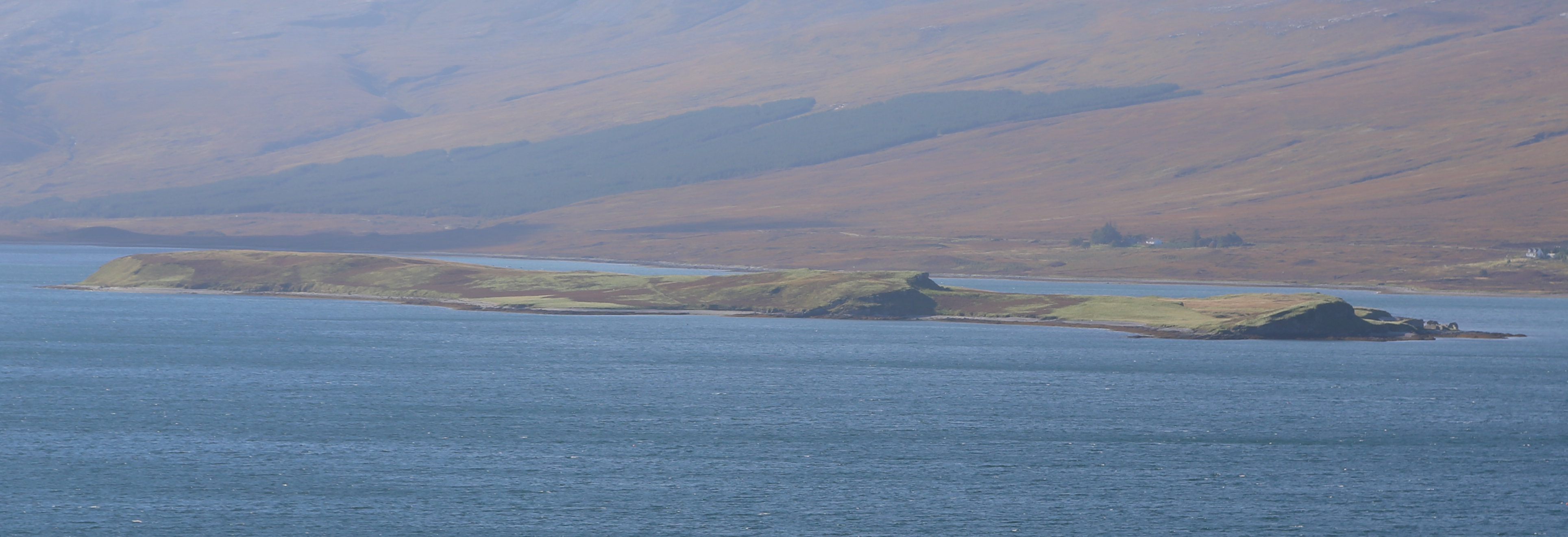 Photo of the island Eilean Choraidh